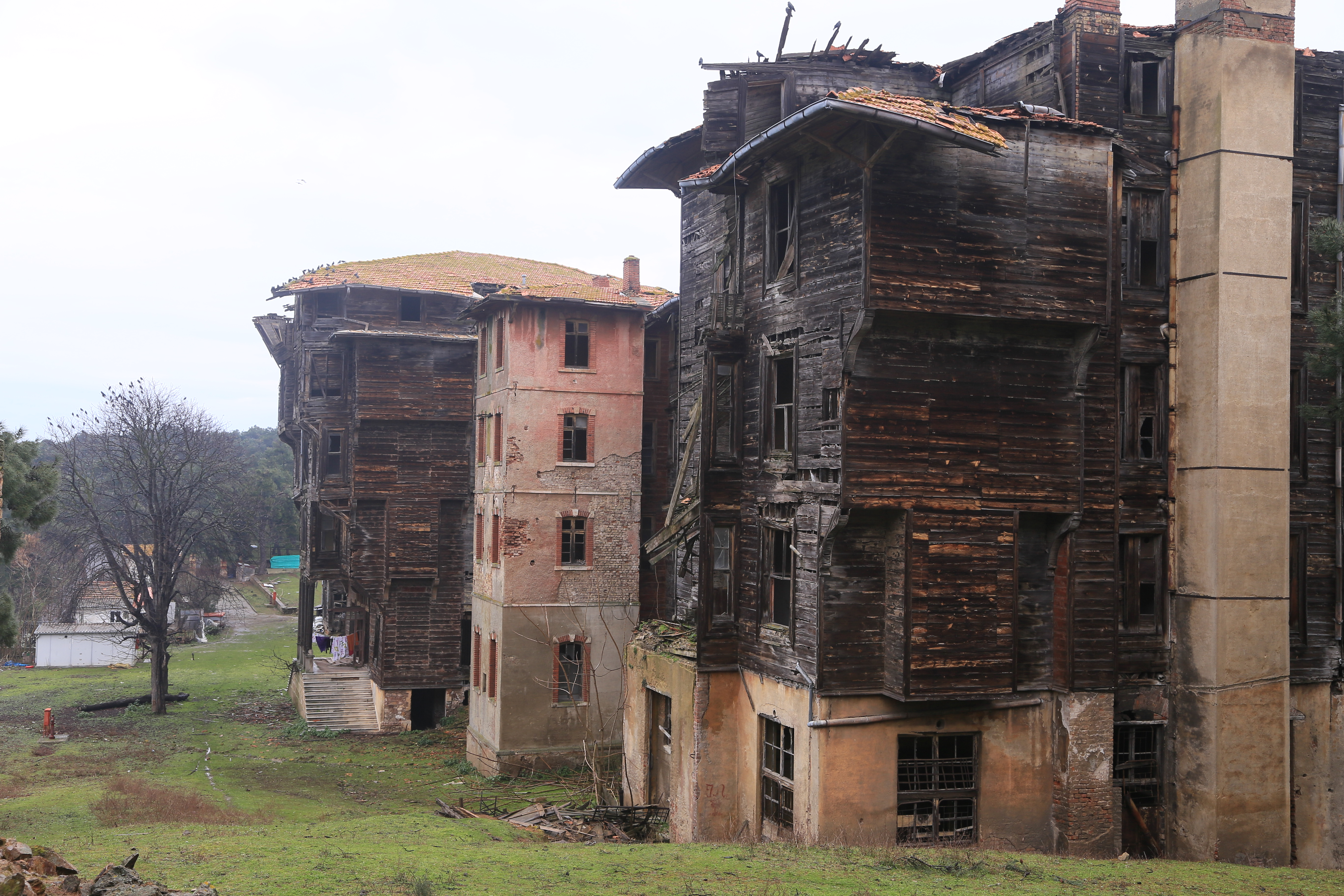 Büyükada Rum Yetimhanesi (Old Greek Orphanage), Istanbul